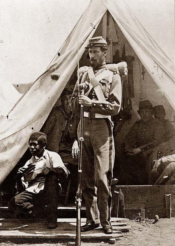 7th New York State Militia (part of the State Defense Forces) in 1861: Only very hesitantly were African-Americans allowed into the federal troops, and even if they were, they usually got only inferior jobs. Description given at the source: "(...) image of 7th New York State Militia, Camp Cameron, D.C., 1861. The picture shows a boack boy shining a pair of boots belonging to one of the soldiers. The boy is likely a former slave. It was taken in 1861. The image shows Soldier, holding bayoneted rifle, standing full-length in front of tent, African American male seated beside him, and others in tent." (text from same source)